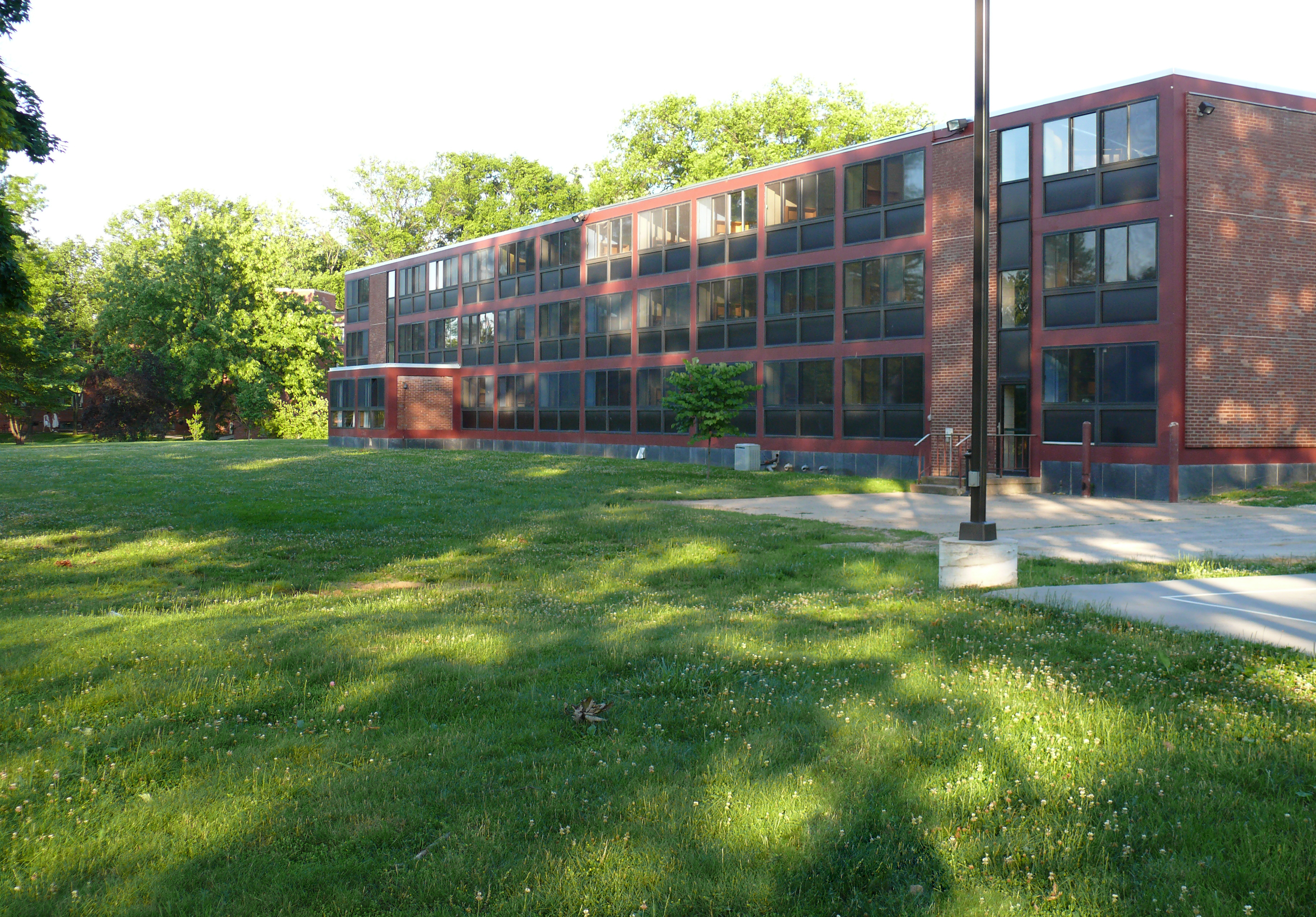 Speed Lawn, the patch of grass behind Speed Hall at Rose-Hulman Institute of Technology.